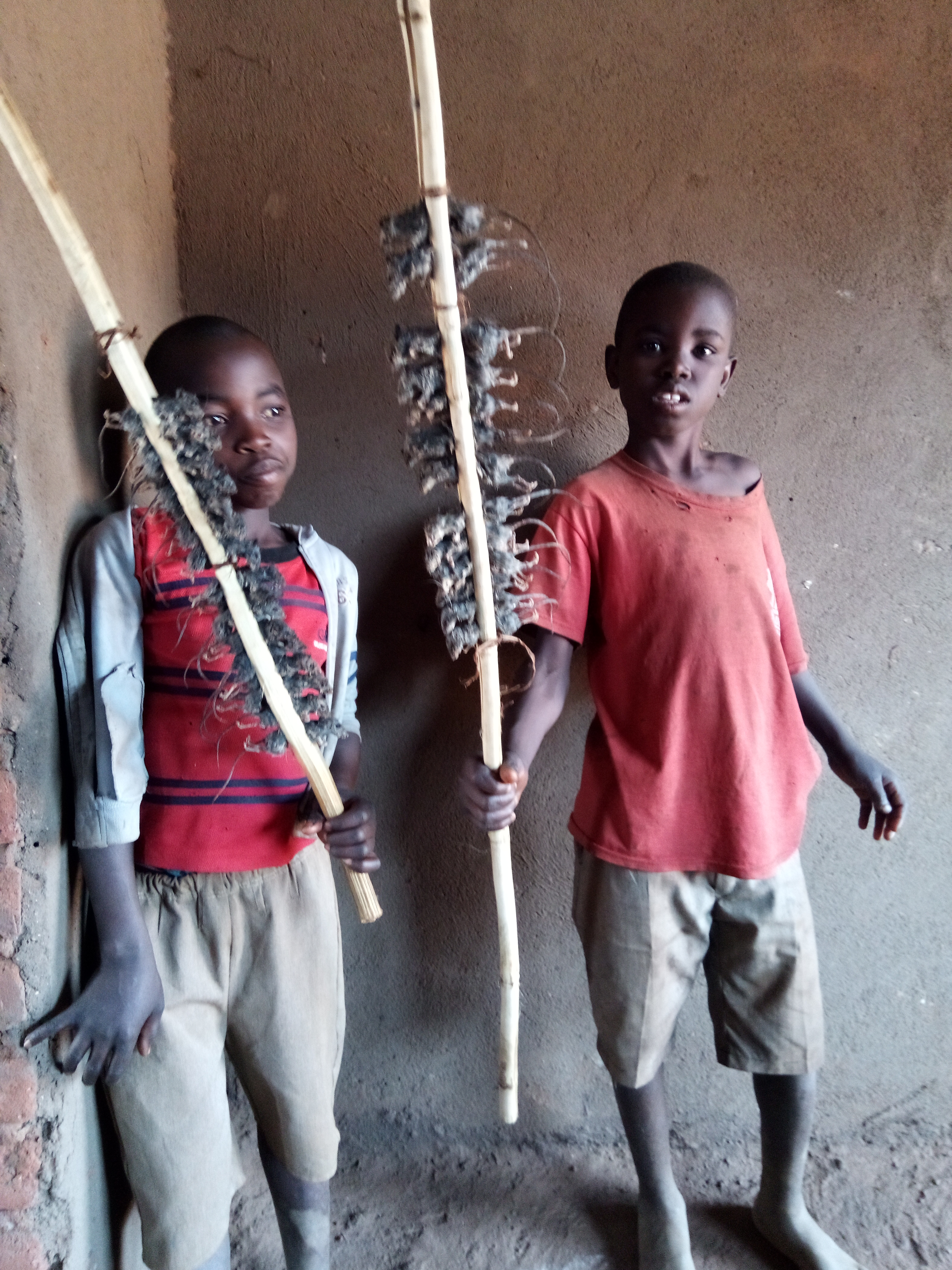 This is an image with the theme "Play" from: Malawi